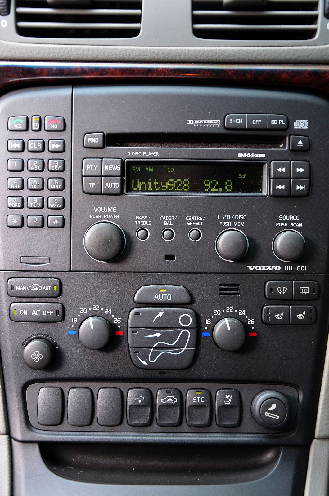 Volvo S80 2.4T 2002 Blue, centre console.